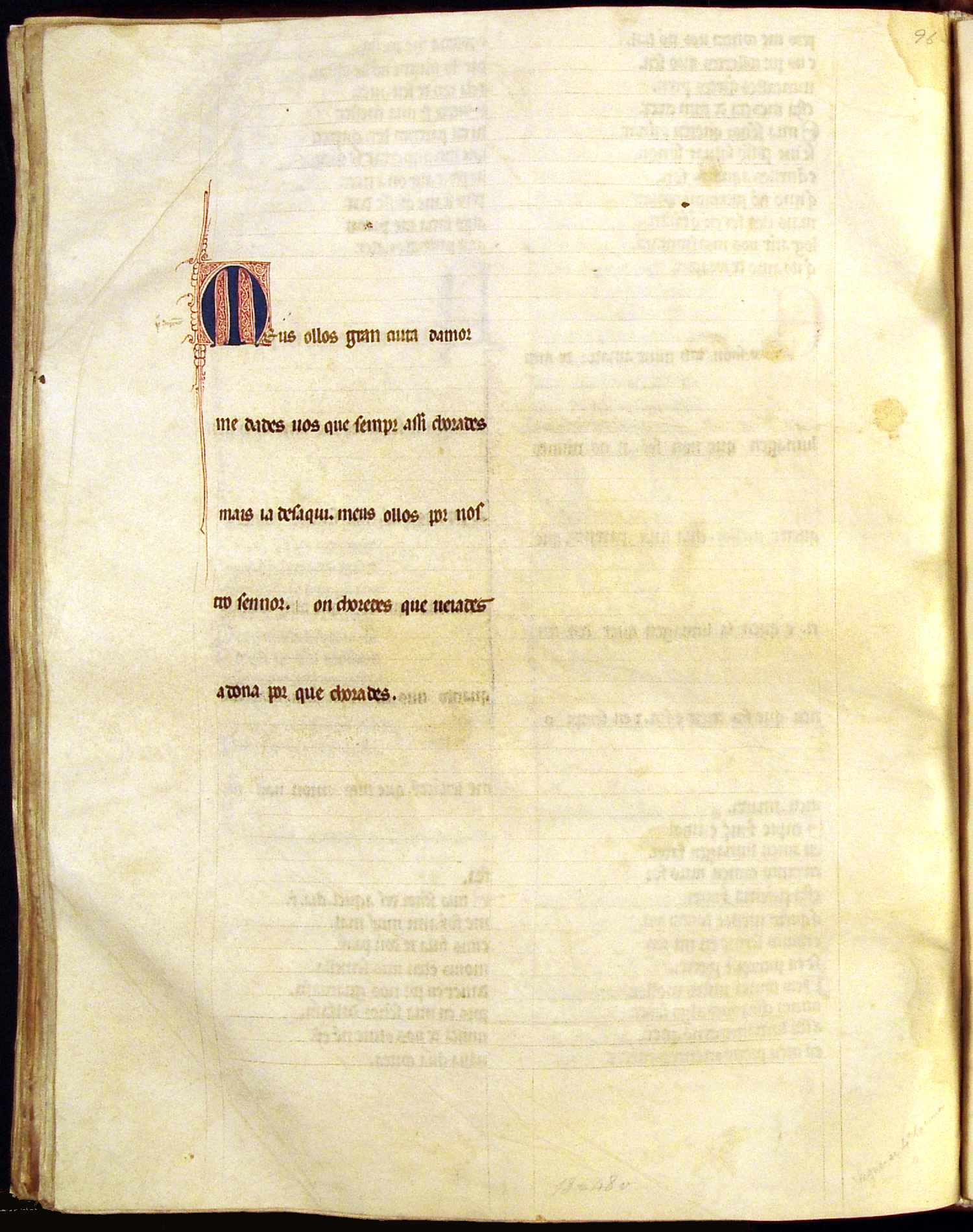 Cancioneiro da Ajuda manuscripts